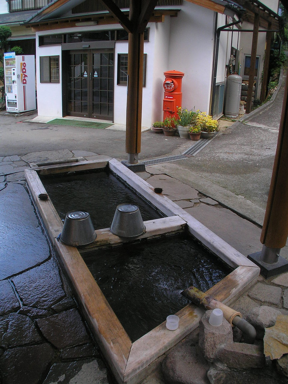 kutsukake-onsen 沓掛温泉洗い場